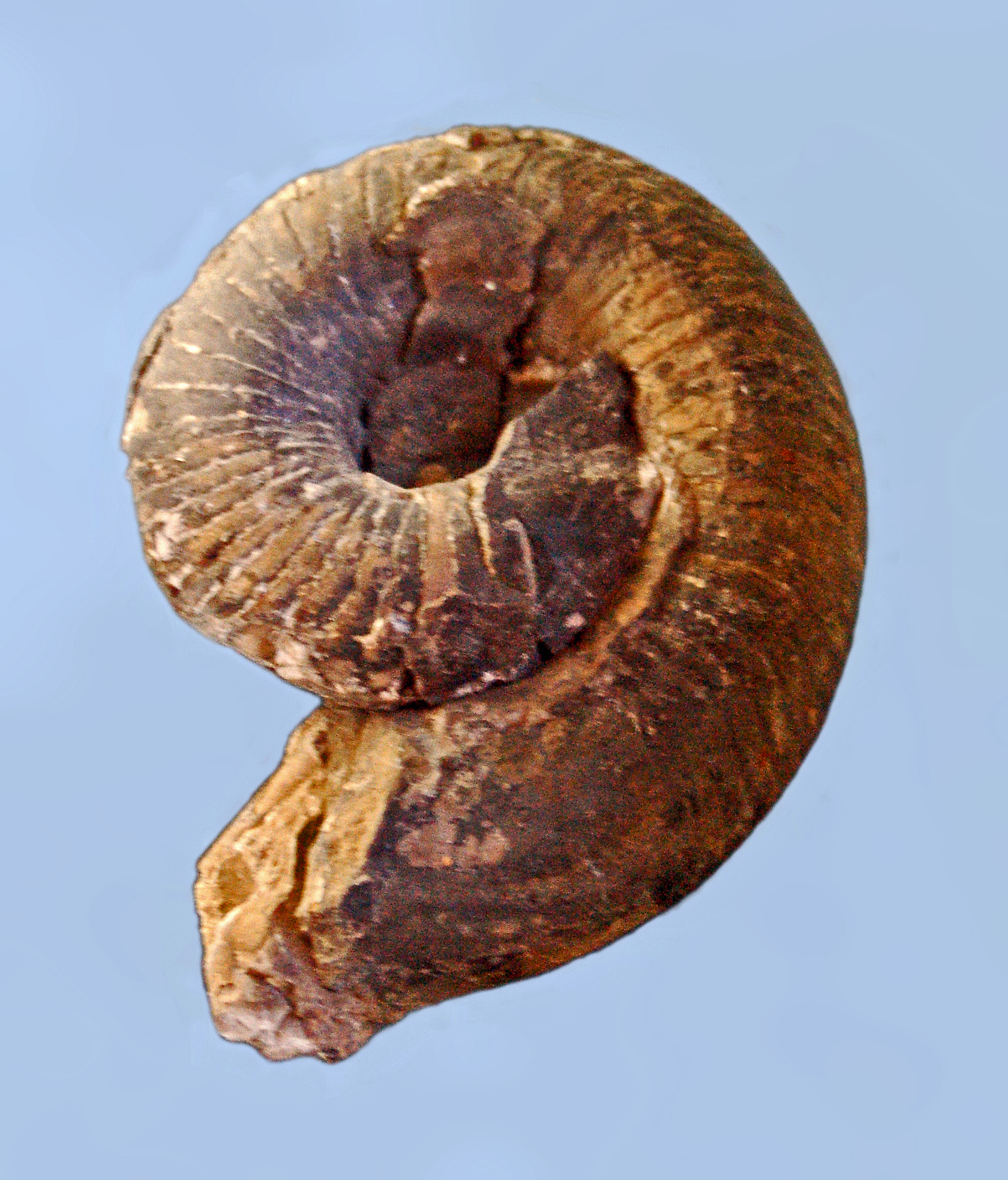 Trochoceras regale, Lochkov, Czech Republic